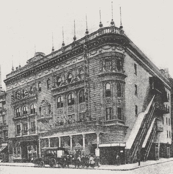 Jacob Adler's Grand Theatre, 255 Grand Street, at Chrystie Street. Illustration from Brockhaus and Efron Jewish Encyclopedia (1906—1913)